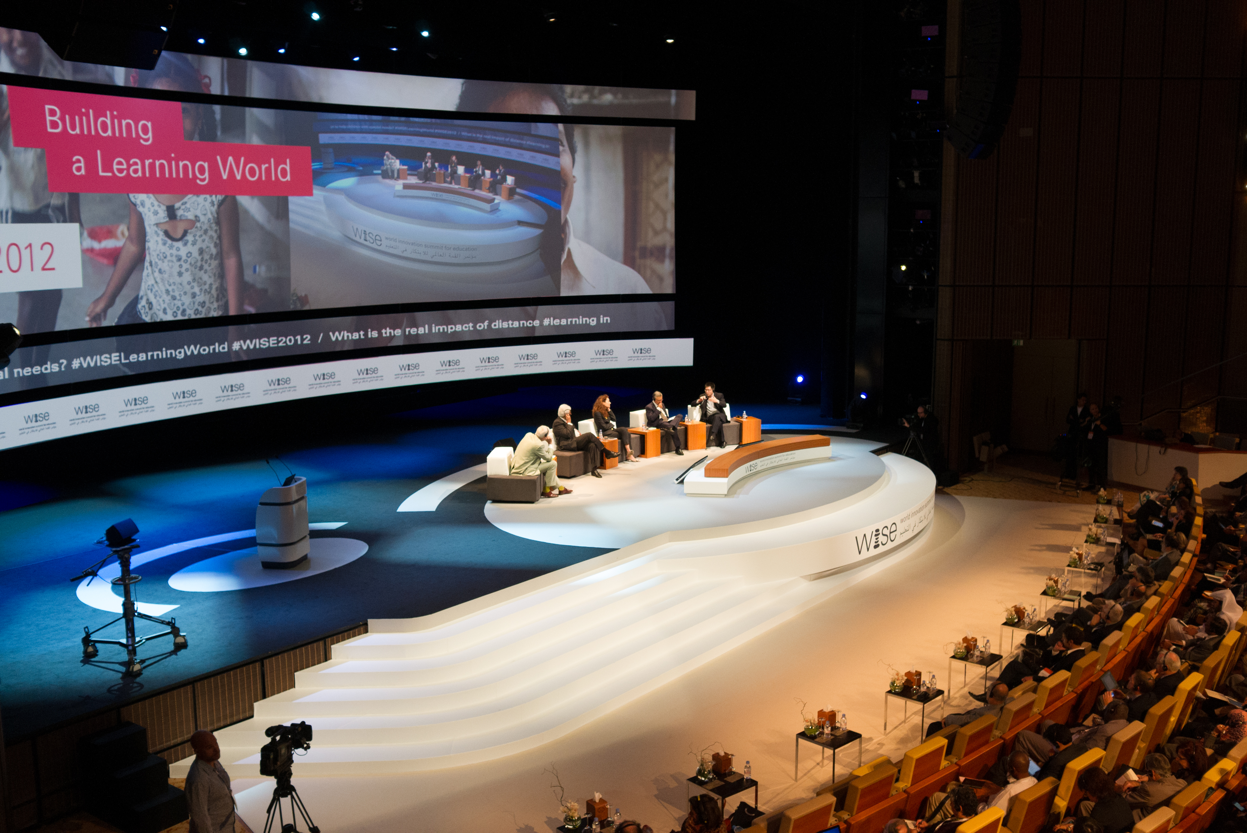 World Innovation Summit for Education (WISE) 2012, Doha, Qatar. Panel "Building a Learning World" on day 3 of the conference.